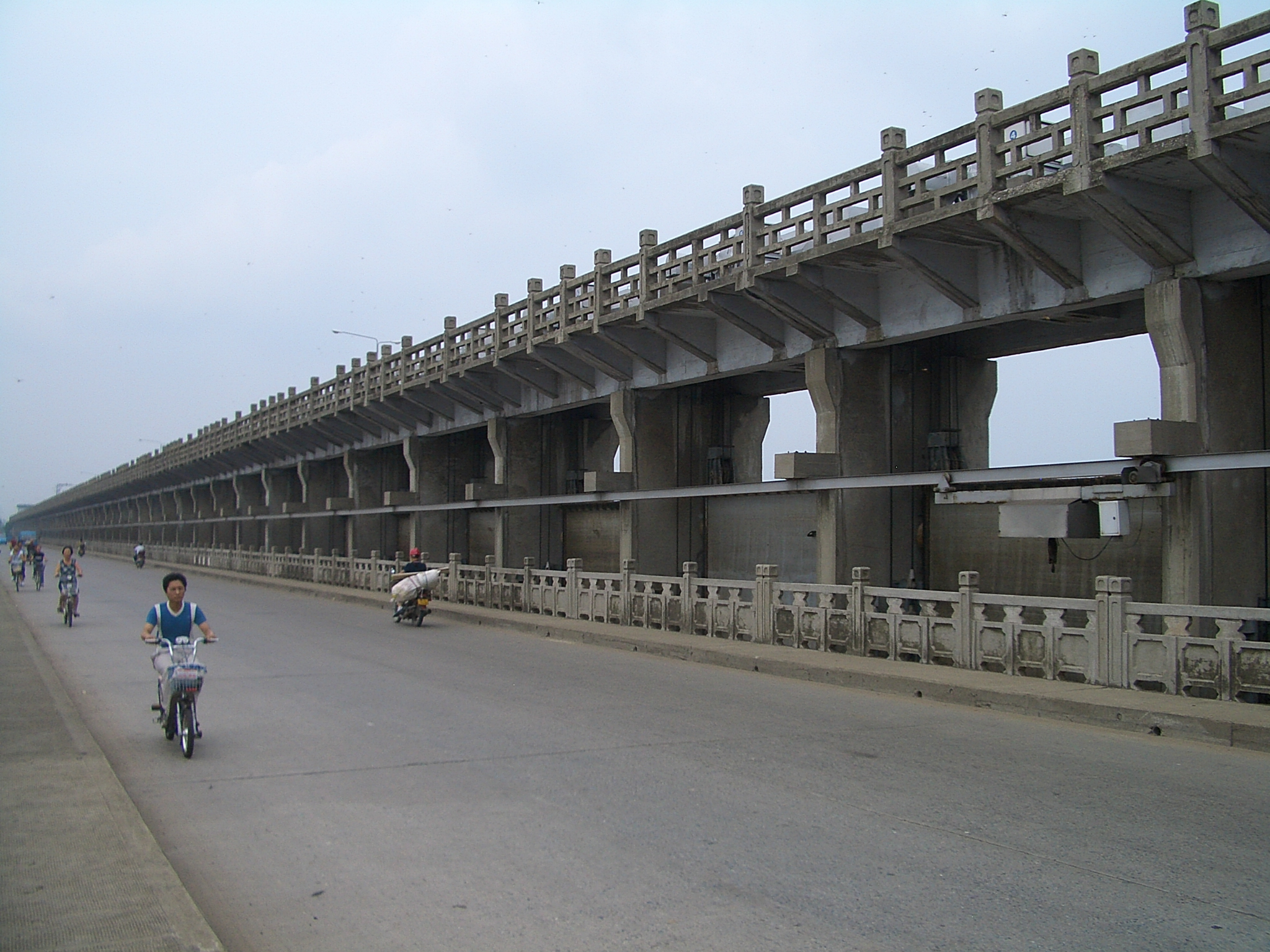 Wanfu Floodgate (Wanfu Zha), a flood control structure on Liaojia River east of Yangzhou